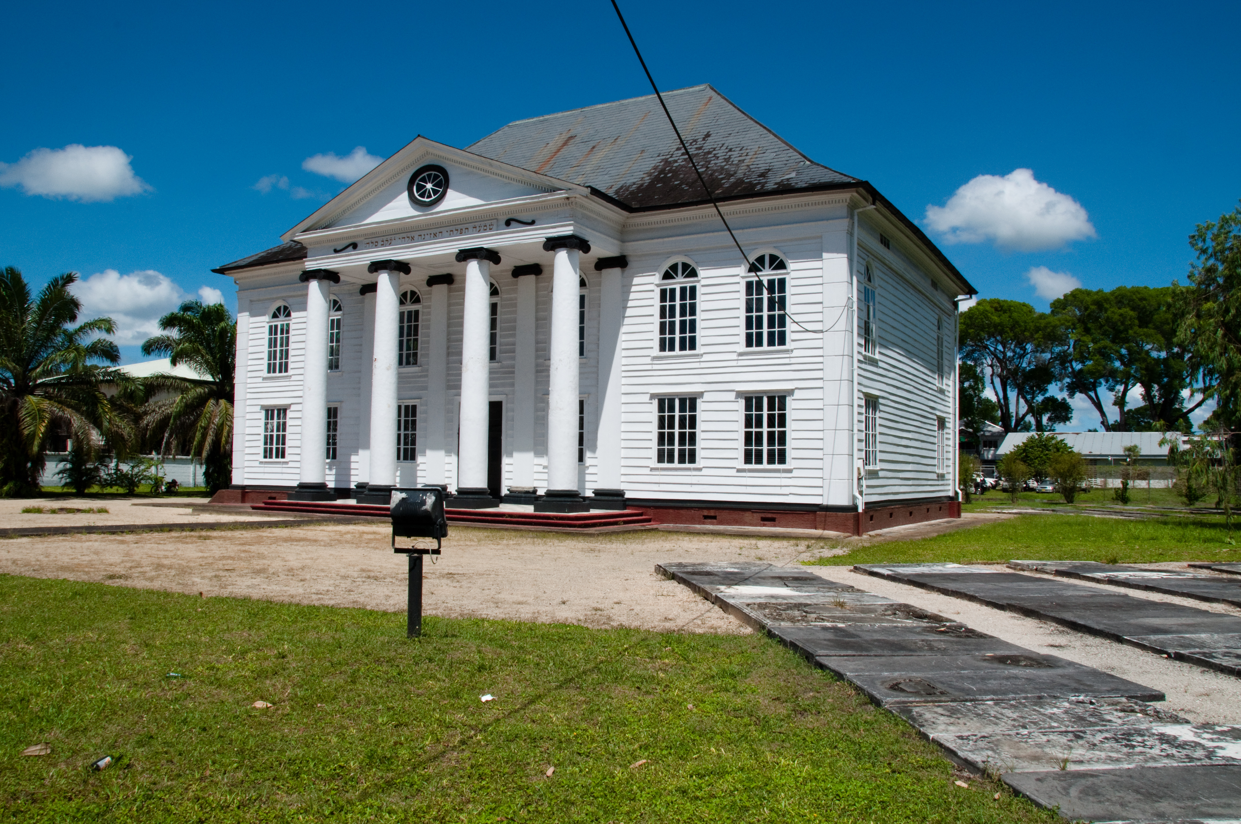 The great Synagoge at Paramaribo, Suriname